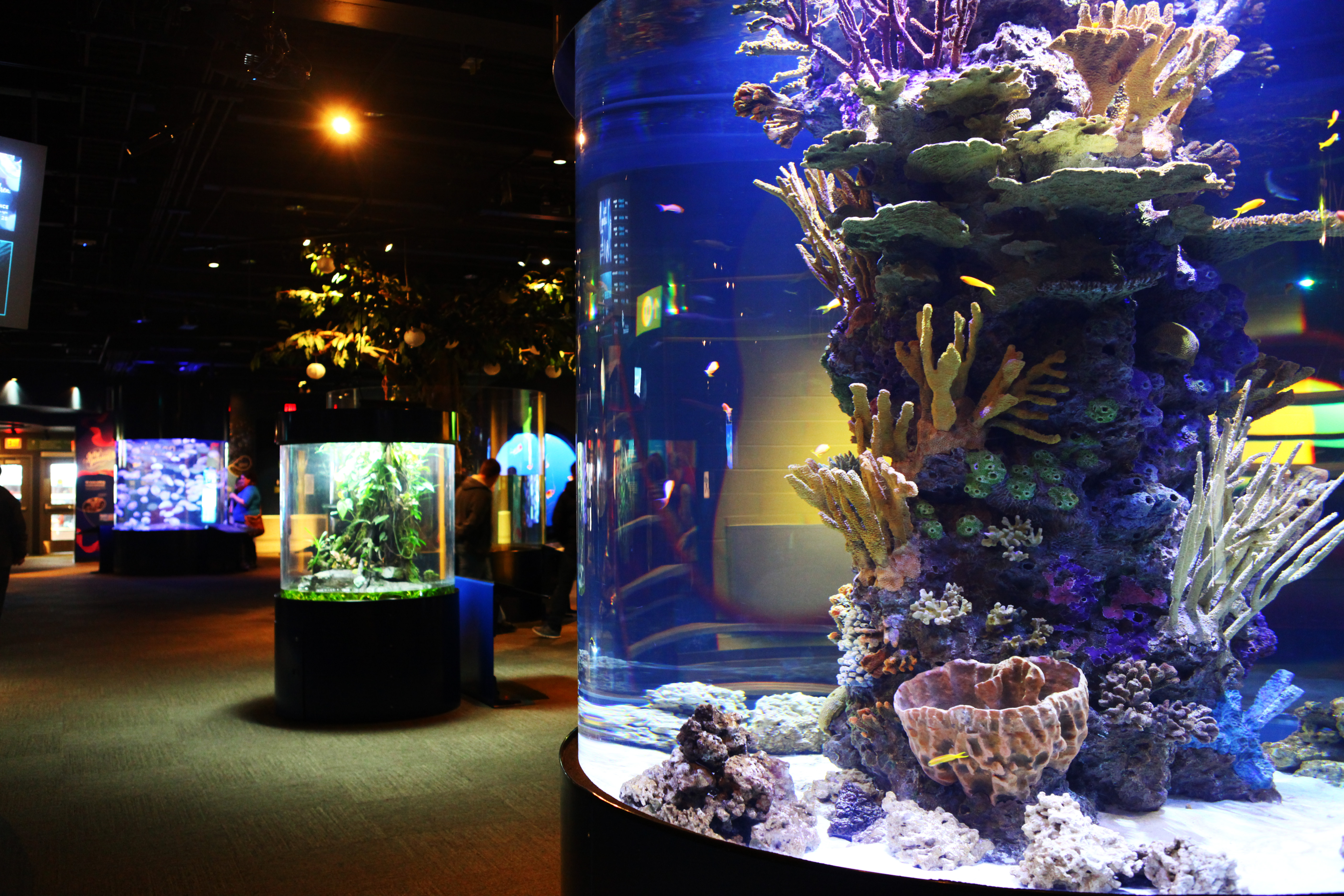 Aquarium Nov 24th, 2013